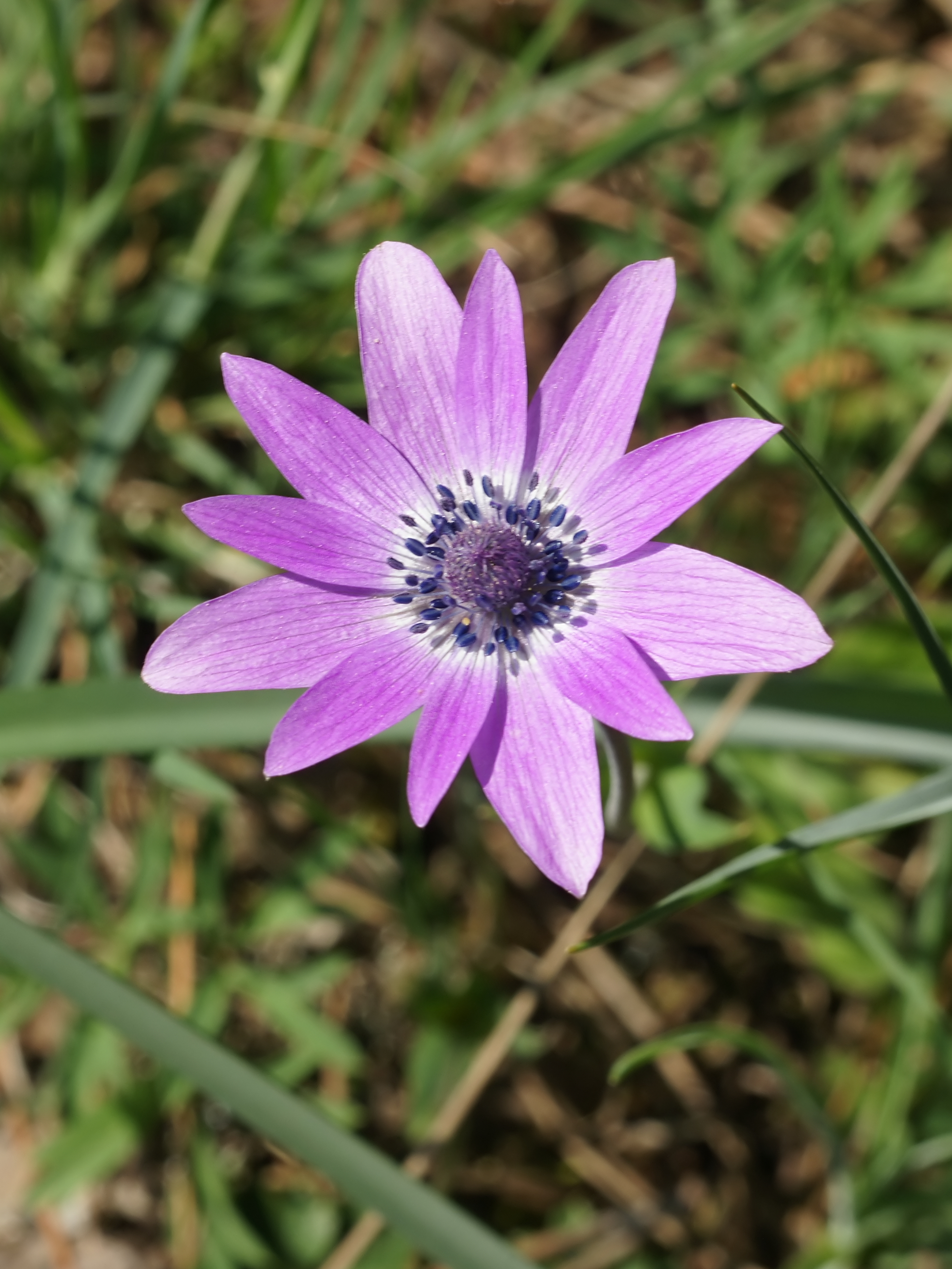 Broad Leaved Anemone at Bois du Rouquan, Var, France